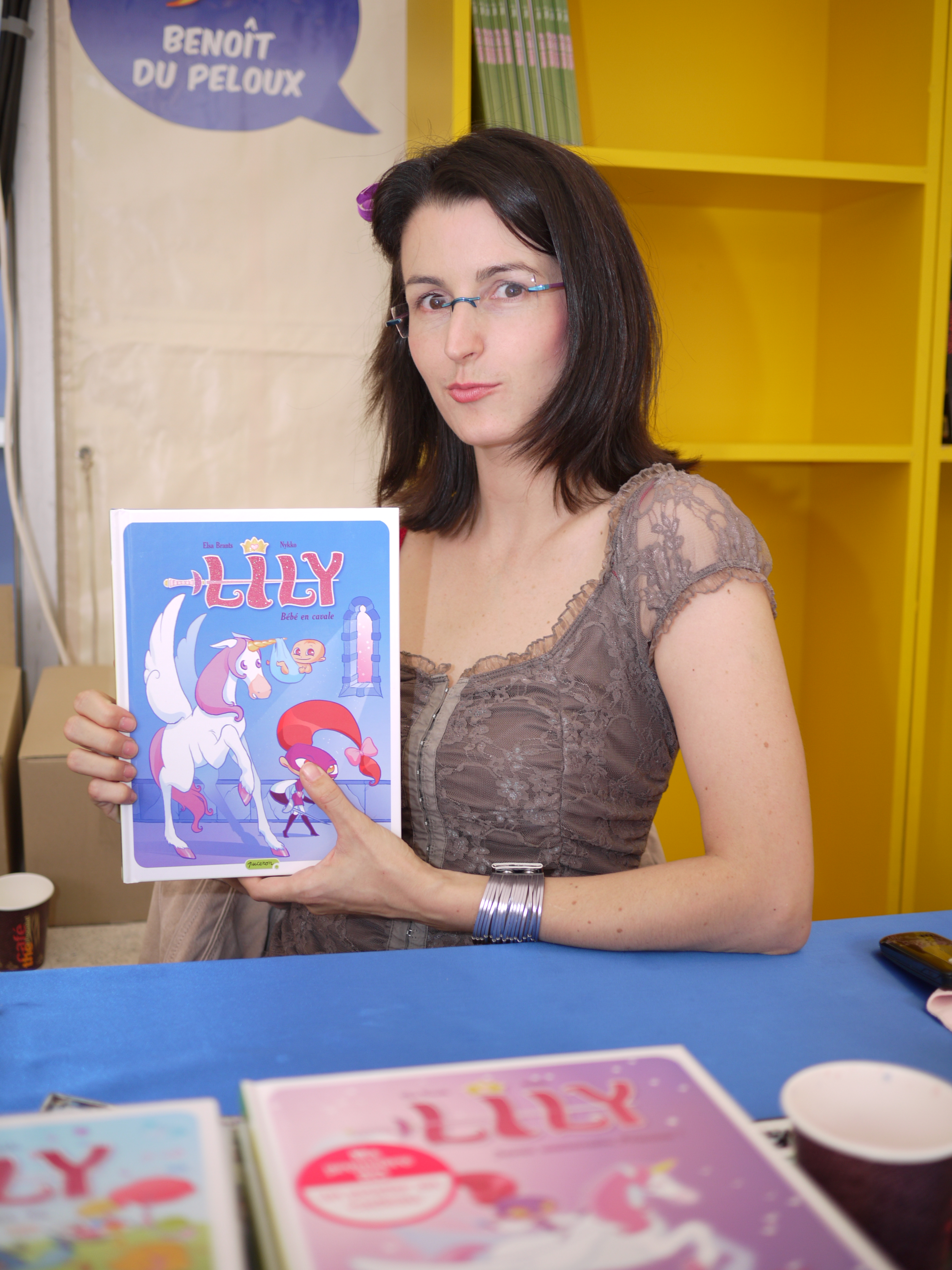 Comic Strip Festival of Montpellier - O Tour de la Bulle 2010